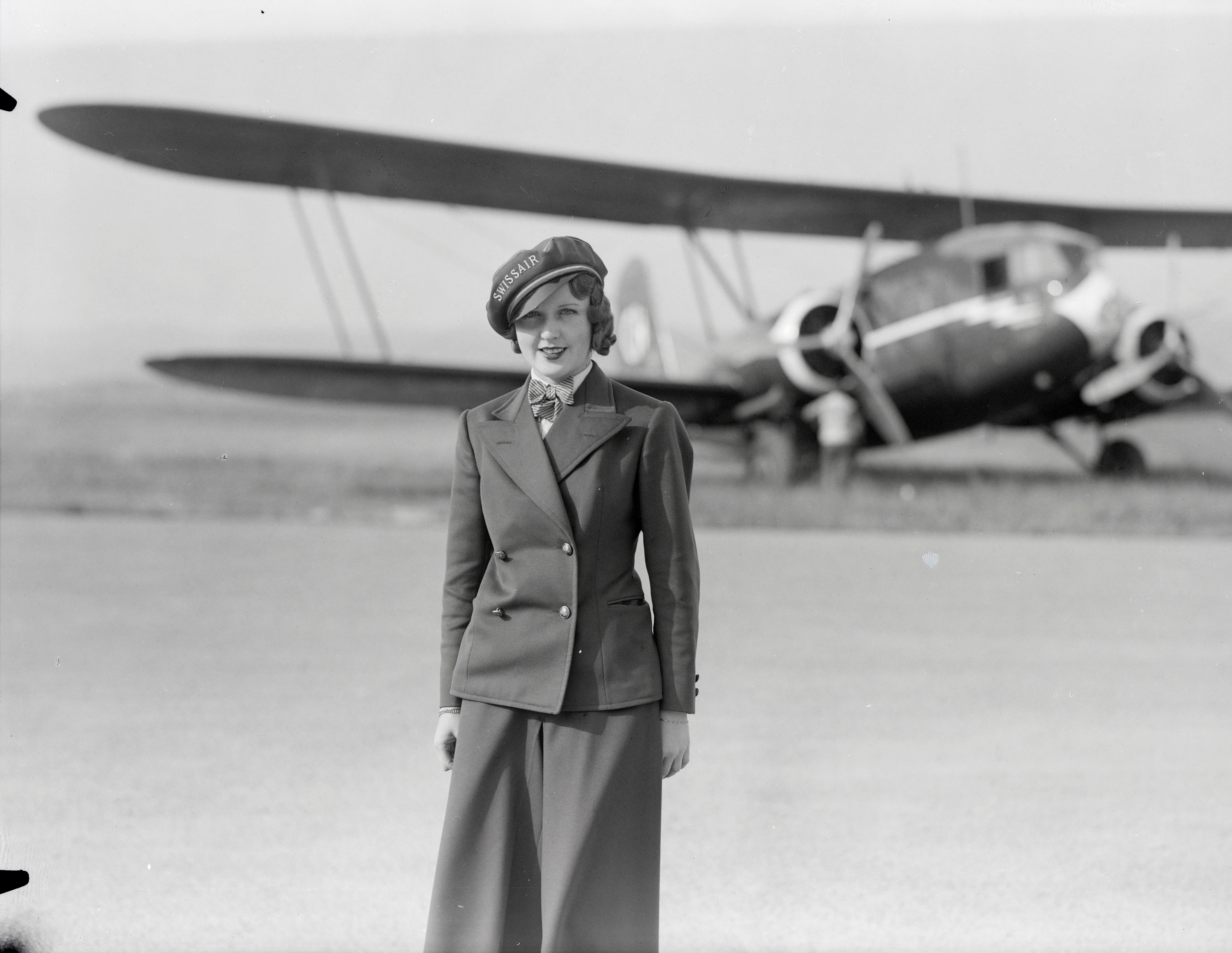 Nelly Diener, the first air stewardess in Europe, standing in front of the Curtis AT-32C Condor, regn. CH-170, in which she would lose her life on 27 July 1934.